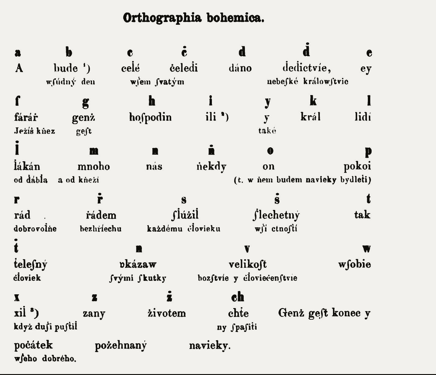 The Czech alphabet from the manuscript Orthographia Bohemica from the 15. century (attributed to Jan Hus). Reprint in Alois Šembera: Mistra Jana Husi Ortografie Česká (Magistri Joannis Hus Orthographia Bohemica). Vienna 1857.